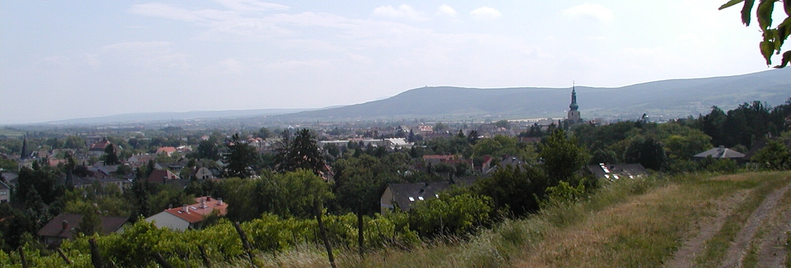 View of Baden (Austria) from the vineyards.